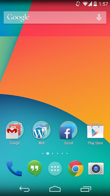 android 4.4.2 on LG Nexus 5